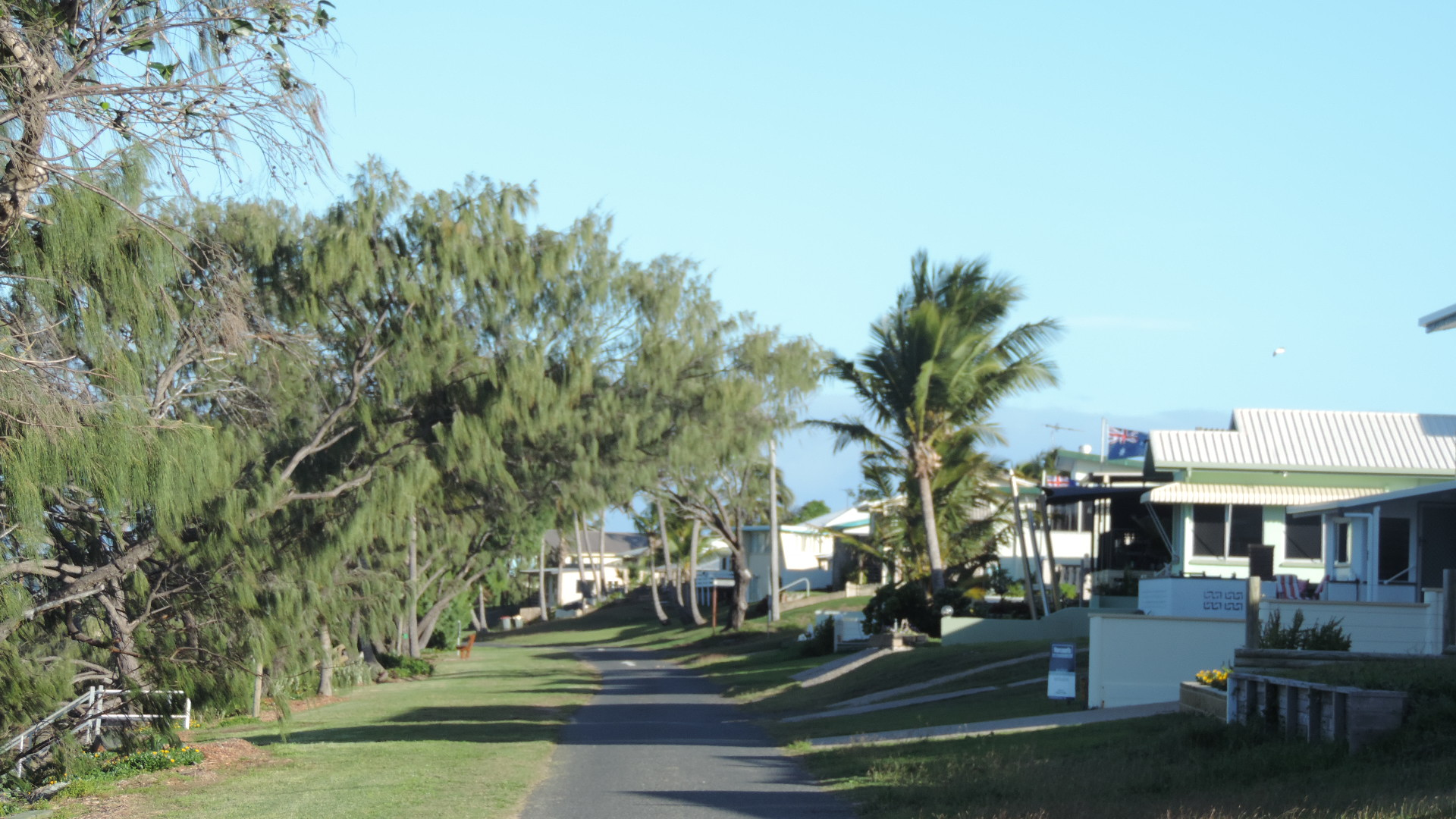 Looking south on Schofield Parade, Keppel Sands, 2016